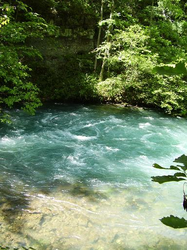 Greer Spring, Missouri, main outlet just above normal flow. karst spring pictured here discharging in dramatic fashion.